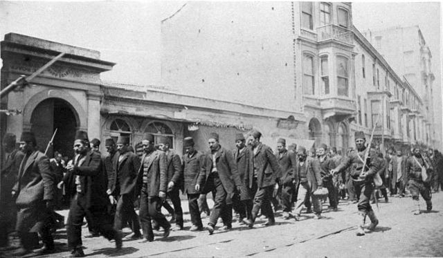 Prisoners of the 31 March Incident